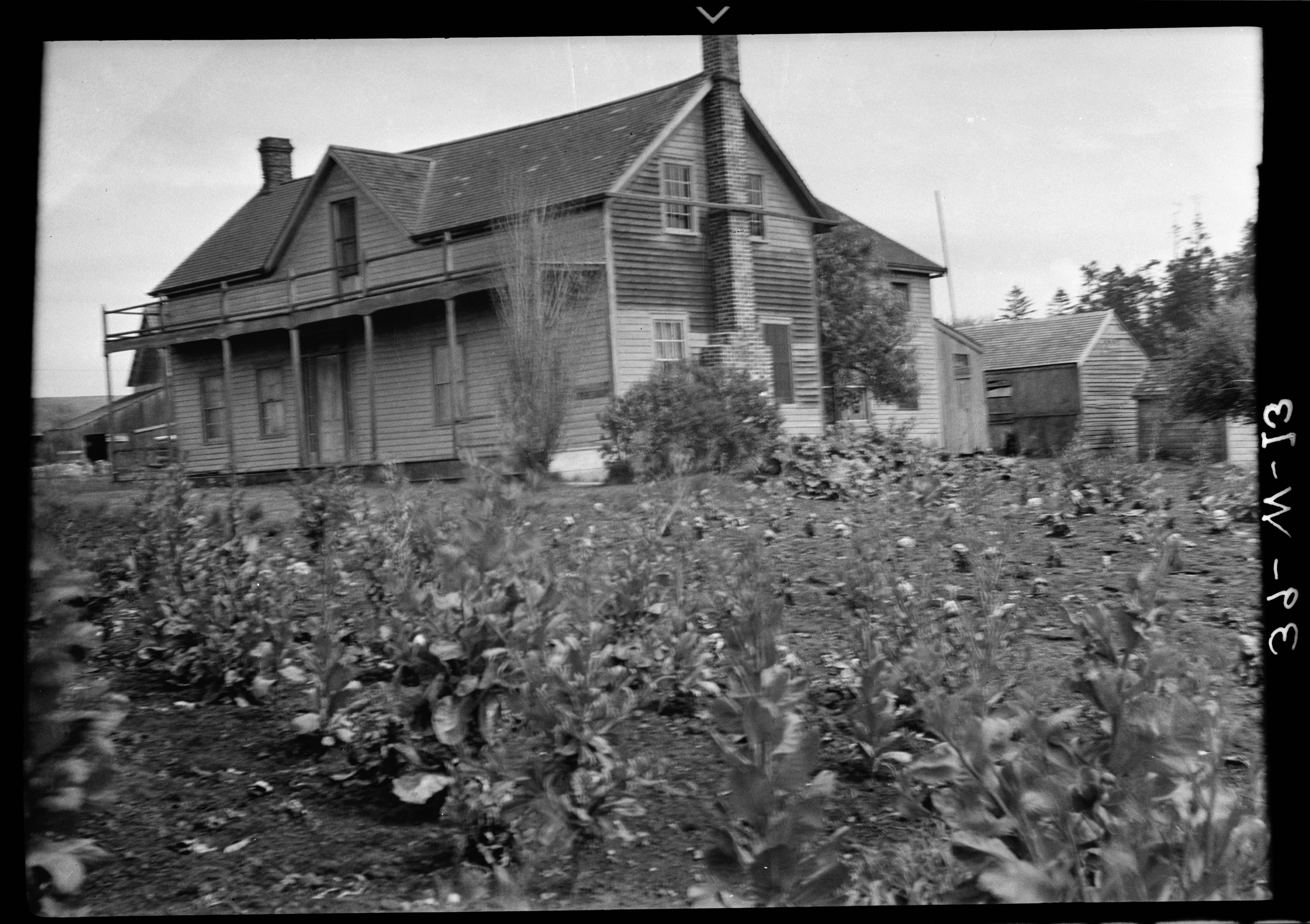 A front view of the Ferry House (called The Ebey House by HABS in 1934). Ebey's Landing, Whidbey Island, Coupeville vicinity, Island County, Washington, United States Central Whidbey Island Historic District